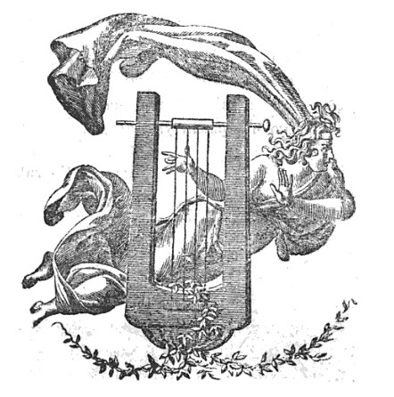 woodcut on title page of Петаръ Iовановићъ, Бачка вила (Musa Bacsiensis), Нови Сад 1844